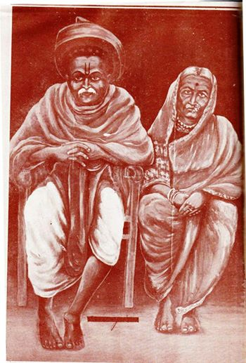 देव मामलेदार उर्फ सिद्ध पादाचार्य स्वामी नाशिक